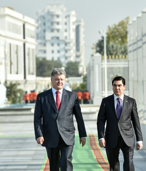 President Petro Poroshenko noted that his visit to Turkmenistan opened new opportunities for Ukrainian companies in the cooperation between the two countries.